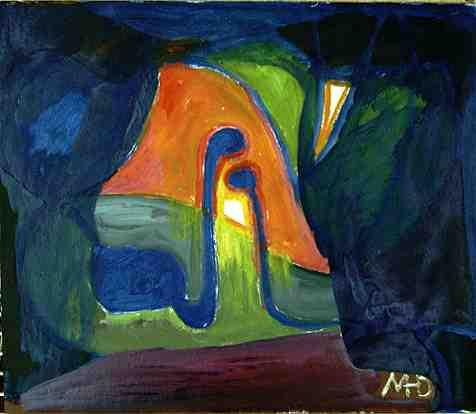 Convergence, Oil Painting, 48×40 cm, 1989 (WV-Nr.7863)